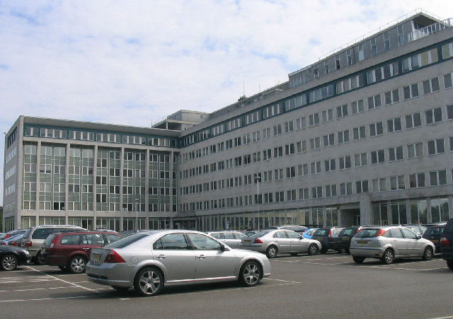 Ford UK & European Headquarters, Warley, Essex. Built on the site of the old Warley Barracks